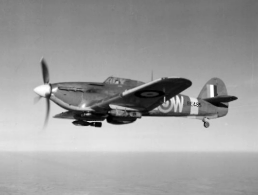 A Royal Canadian Air Force Hawker Hurricane Mark IIE (BE485 "AE-W") of No. 402 Squadron RCAF based at Warmwell, Dorset, in flight carrying two 250-lb GP bombs. The Mark IIE version was fitted with a 'universal' wing, permitting a variety of armament and stores to be carried without the necessity of modifying control systems and electrical circuits.